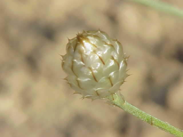 Species: Catananche caerulea Family: Compositae Image No. 1